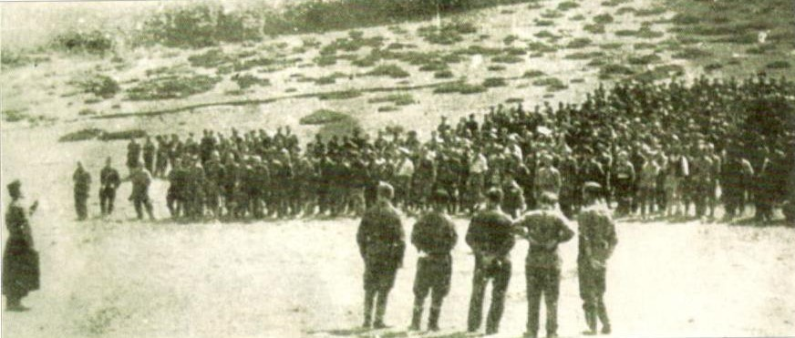 Foundation of the V Macedonian partisan brigade